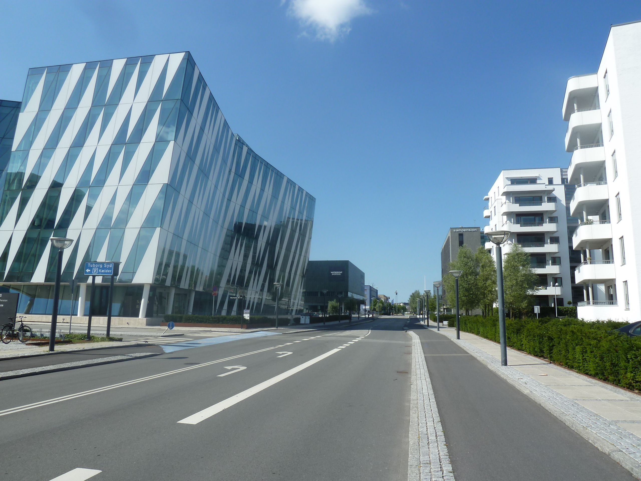 The street Philip Heymans Alle in Hellerup in Copenhagen.